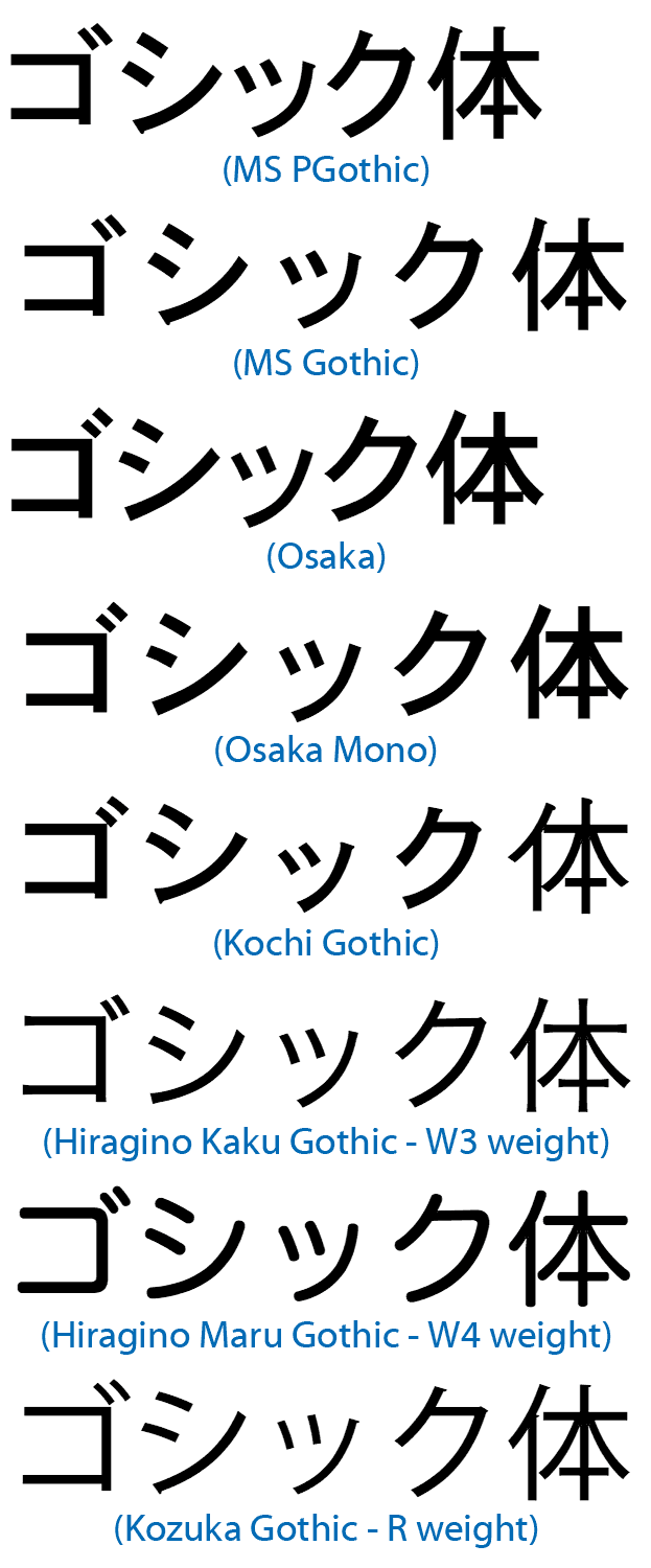 A comparison of common Japanese gothic typefaces: MS Gothic and MS PGothic are distributed by Microsoft with its Windows Operating System Osaka is distributed by Apple with Mac OS X Kochi Gothic is included with many Linux distributions Hiragino Kaku Gothic, Hiragino Maru Gothic, and Kozuka Gothic are distributed by Adobe. These fonts come in multiple weights, with both lighter and bolder versions than those shown. Created with FontExplorer X and Adobe Photoshop on an Apple Macintosh running OS X 10.4 Tiger. Released into the public domain. In